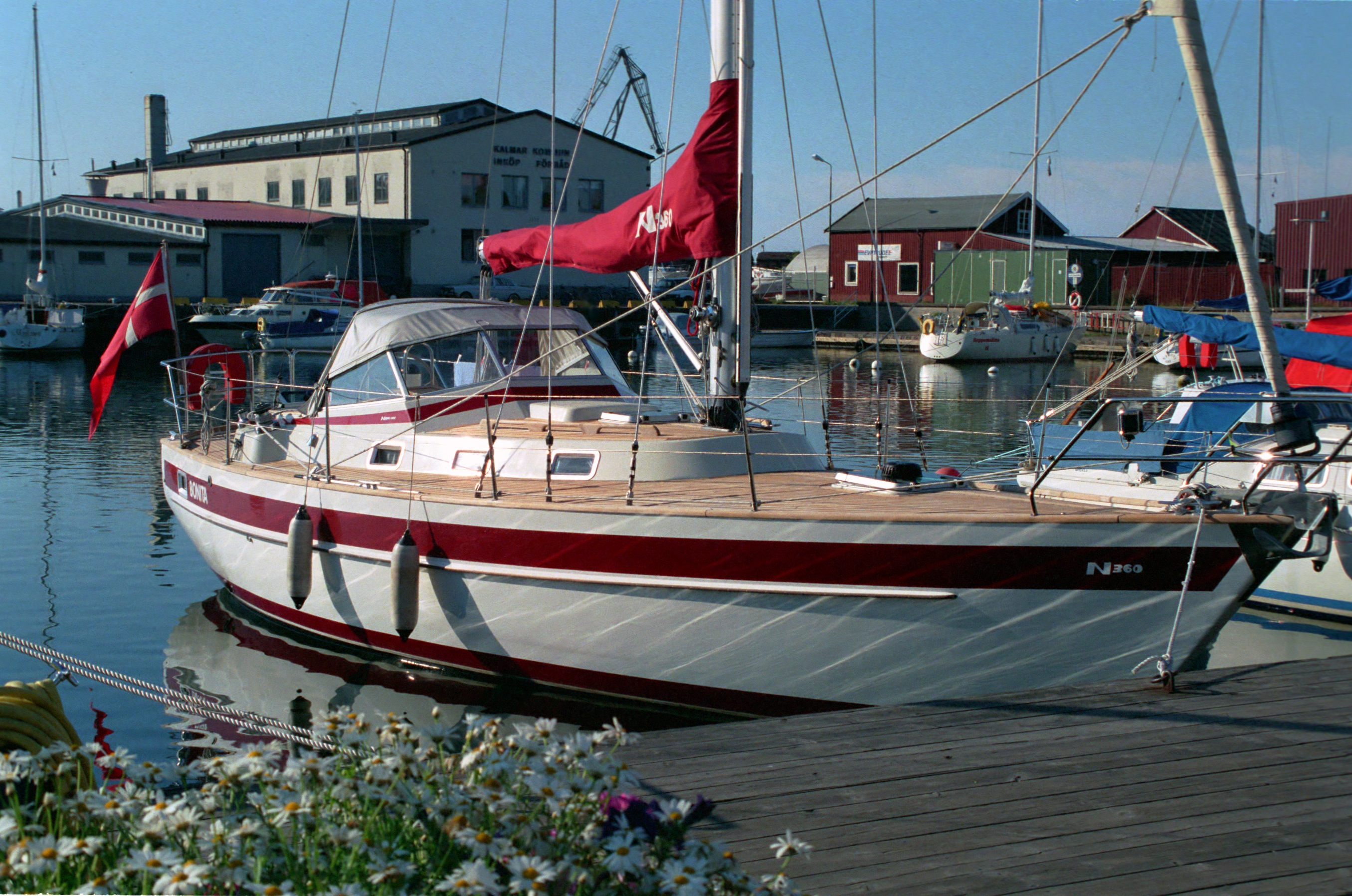 Najad 360